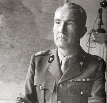 Antoni Chruściel, a Polish WWII general and the commander of the Warsaw Uprising